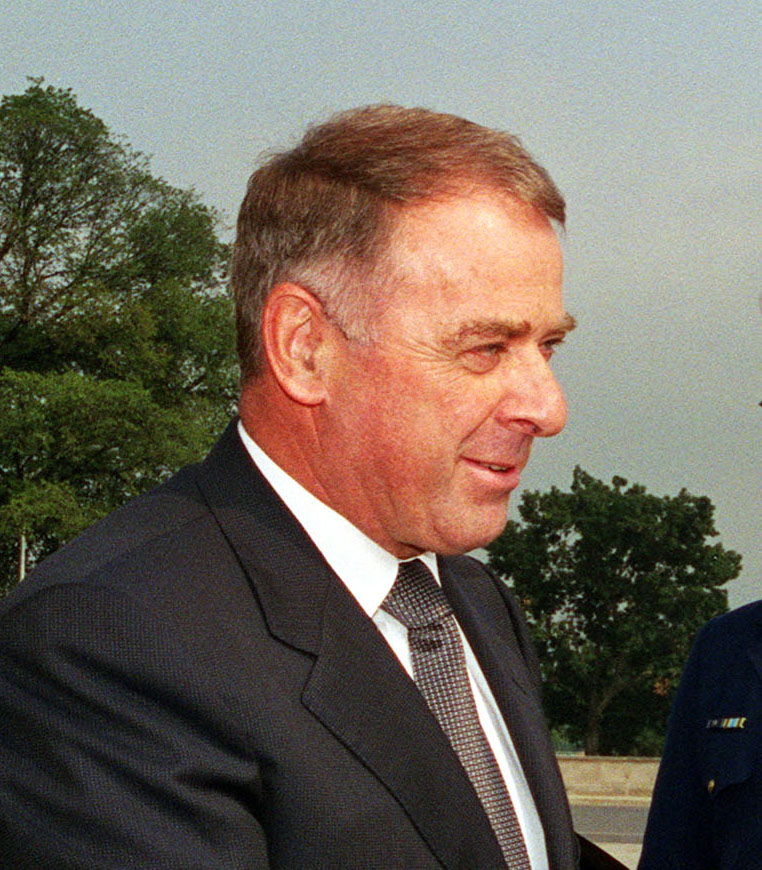 Adolf_Ogi Public Domain President and Minister of Defense Adolf Ogi (left), of Switzerland, is greeted by Secretary of Defense William S. Cohen (right) as he arrives at the Pentagon for an armed forces full honors arrival ceremony on July 28, 2000. Cohen and Ogi will meet to discuss security issues of interest to both nations. DoD photo by Helene C. Stikkel.(Released)